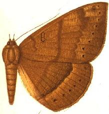 PLATE CCIV.